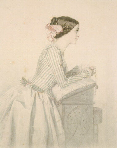 Vincent Vidal (1811-1887): Young lady saying the rosary , Watercolor